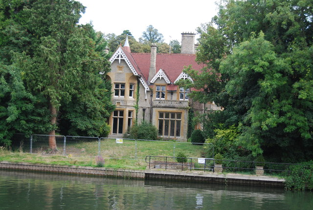 Derelict looking house on Glen Island